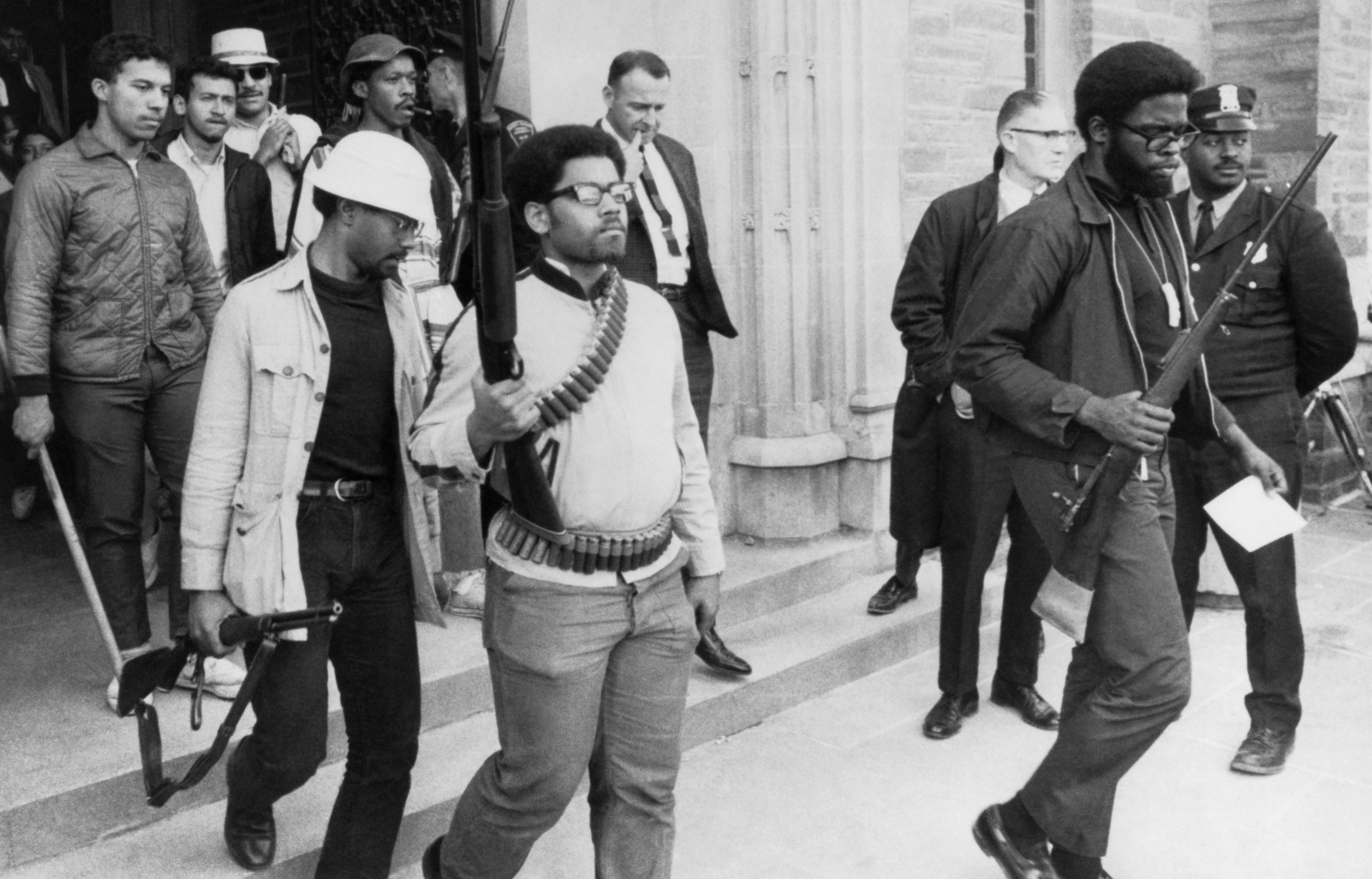 "Campus Guns", photograph of armed black student activists leaving Willard Straight Hall at Cornell University after having occupied it for 36 hours in protest of racism at the university. Winner of the 1970 Pulitzer Prize for Spot News Photography.